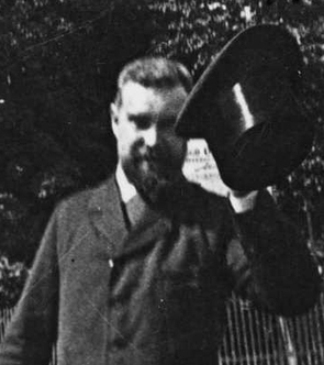 Norwegian professor of astronomy Jens Fredrik Schroeter (1857-1927)